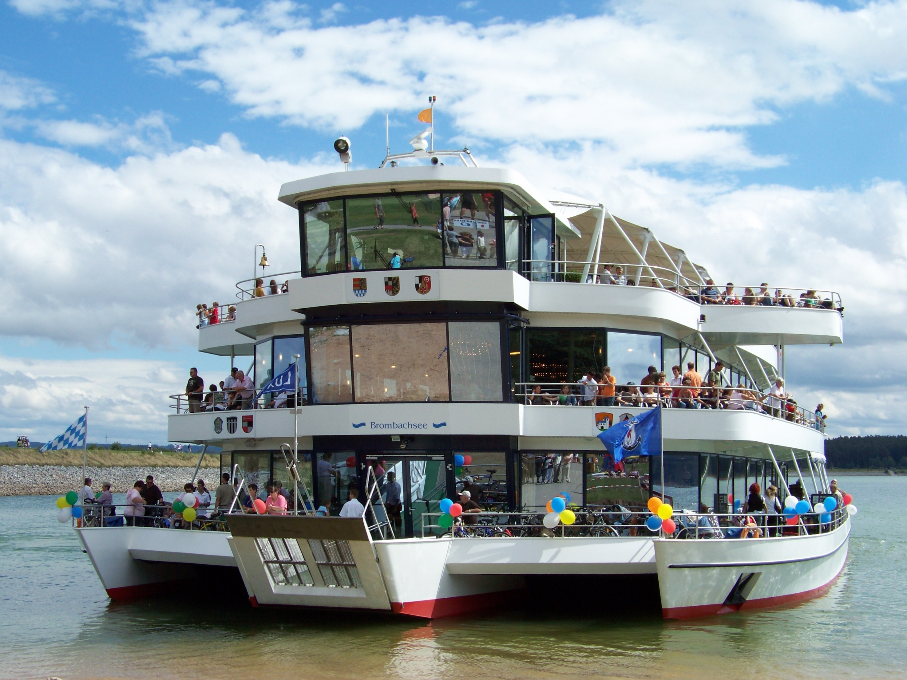 Die MS Brombachsee, Europas größter Passagier-Trimaran, beim Verlassen der Anlegestelle Almannsdorf am Großen Brombachsee (Fränkisches Seenland, Mittelfranken). The MS Brombachsee, Europe's largest passenger trimaran, is leaving the landing stage at Almannsdorf, a small town located at the "Großer Brombachsee", a reservoir located in Middle Franconia, (Bavaria), Germany.